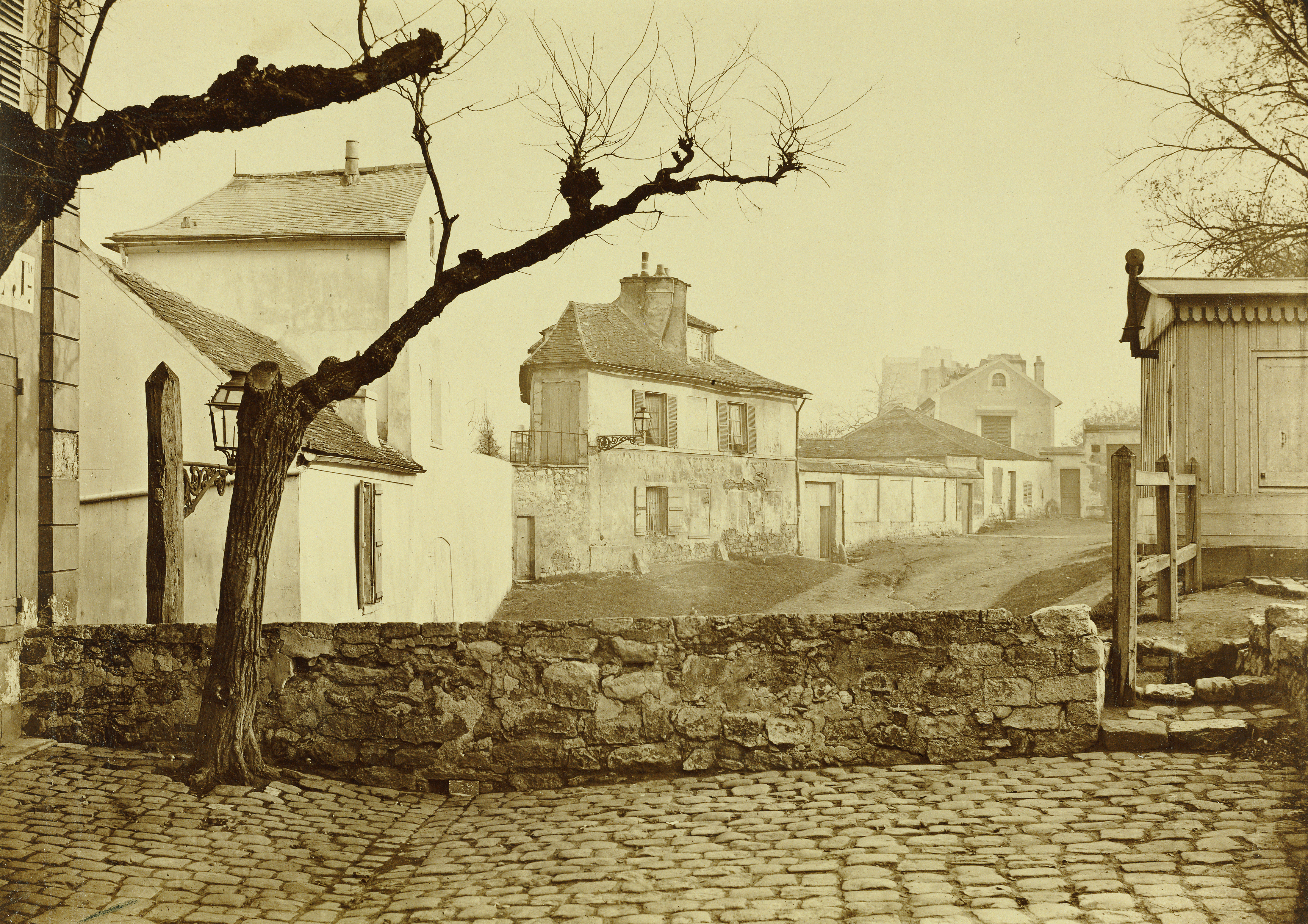 This dead-end, cobblestone lane stood near the horse market in Paris. Urban planner Baron Georges-Eugène Haussmann commissioned Charles Marville to document "old Paris" prior to Haussmann's redesign of the city's streets and public spaces. Beyond the stone wall, a quaint neighborhood of modest structures backs up on a dirt alley. The foreground trees, stripped by the winter of their foliage, arch across the photograph like rolled up theater curtains revealing some backstage scene. This neighborhood may have been demolished to make way for one of Haussman's grand boulevards, which have come to characterize modern Paris.